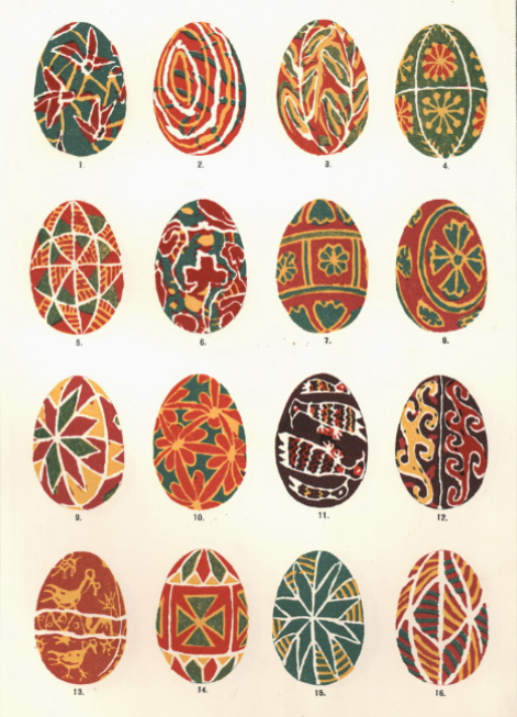 Catalogue page from 1899 which detailed over 2,000 of the eggs collected by Skarzhynska published in Description of the Collection of Pysanky (Ukrainian: Описаніе коллекціи народныхъ писанокъ)